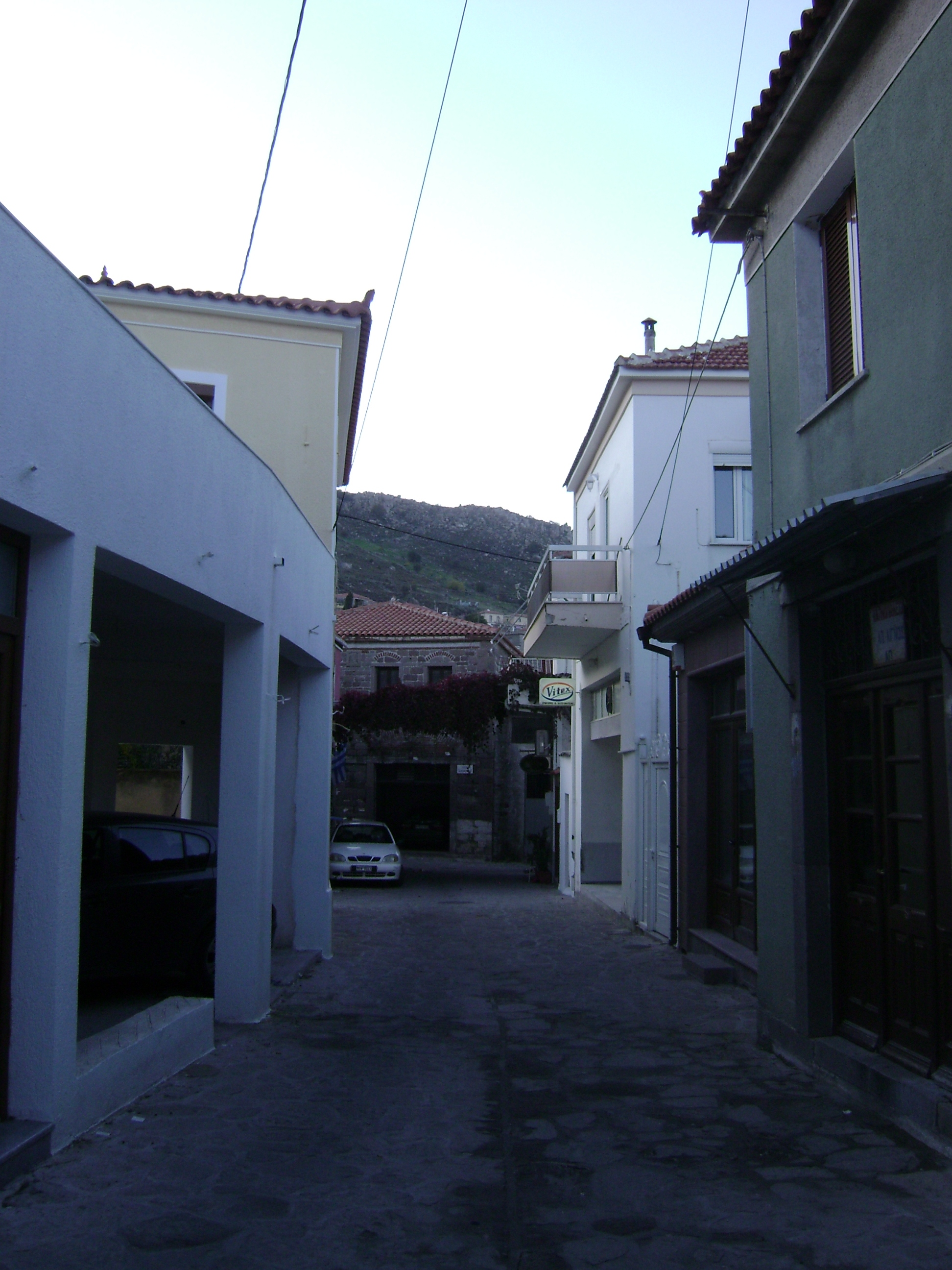 Andissa street